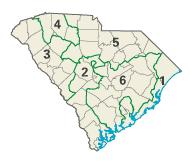 Image adapted from US fed gov't source